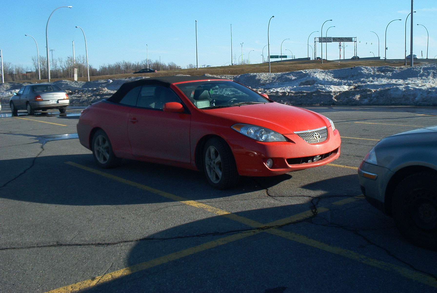 2004-2006 Toyota Camry Solara, photographed in Canada.